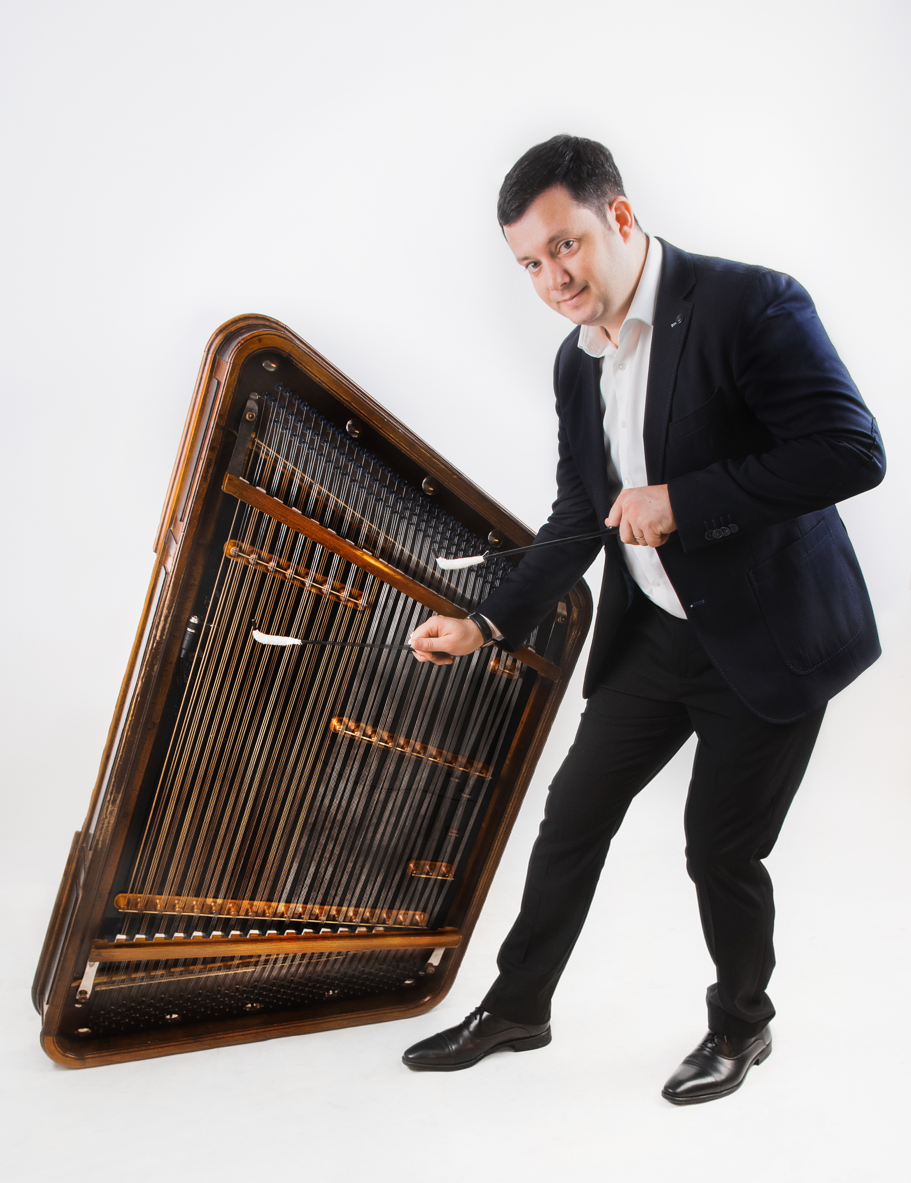 Demo Photo Alexandru Sura & cimbalom